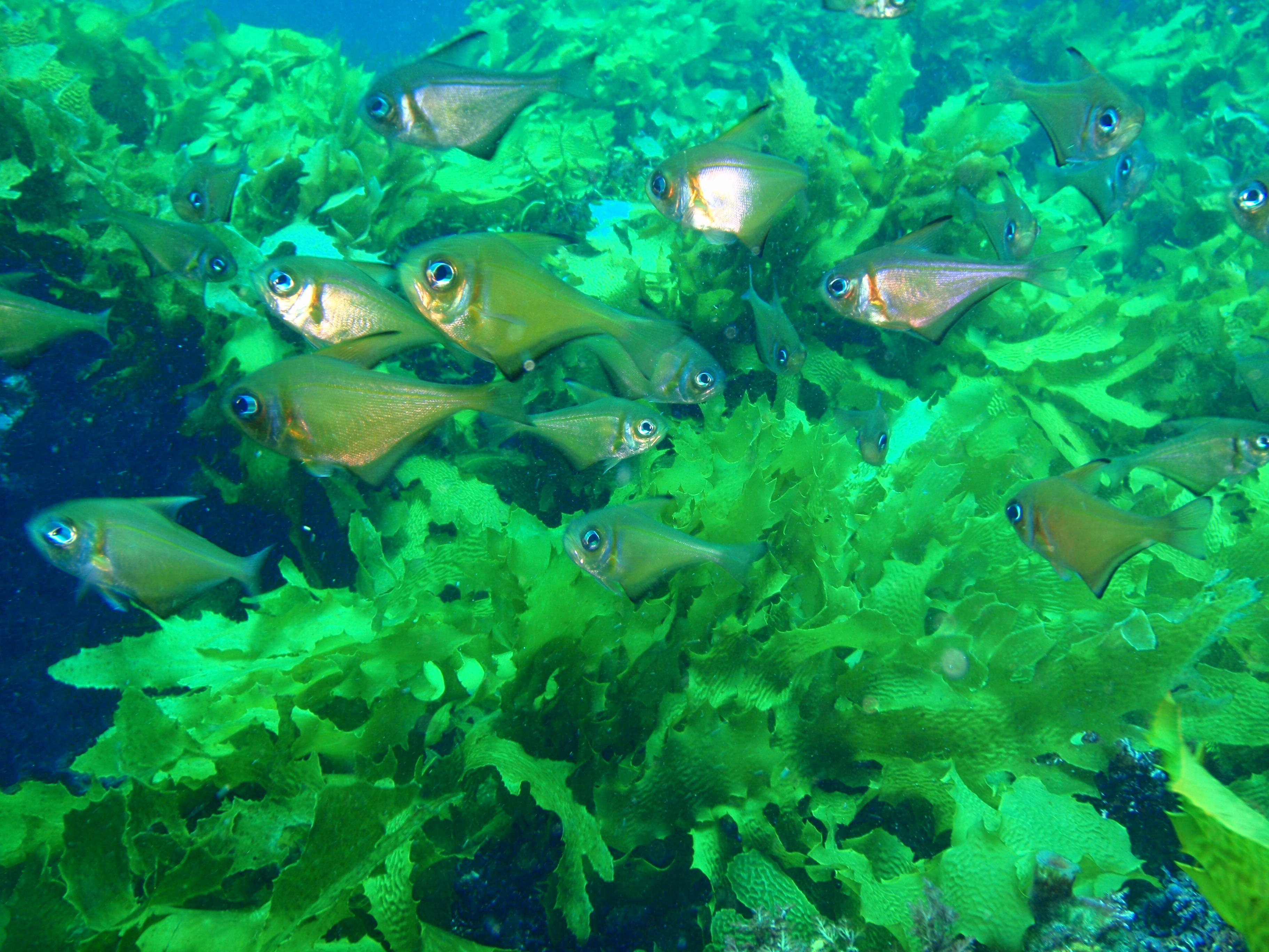 Rough bigeye Pempheris klunzingeri;; at Michaelmas Reef in King George Sound, South Australia.